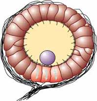 A small figure representing the statocyst system.